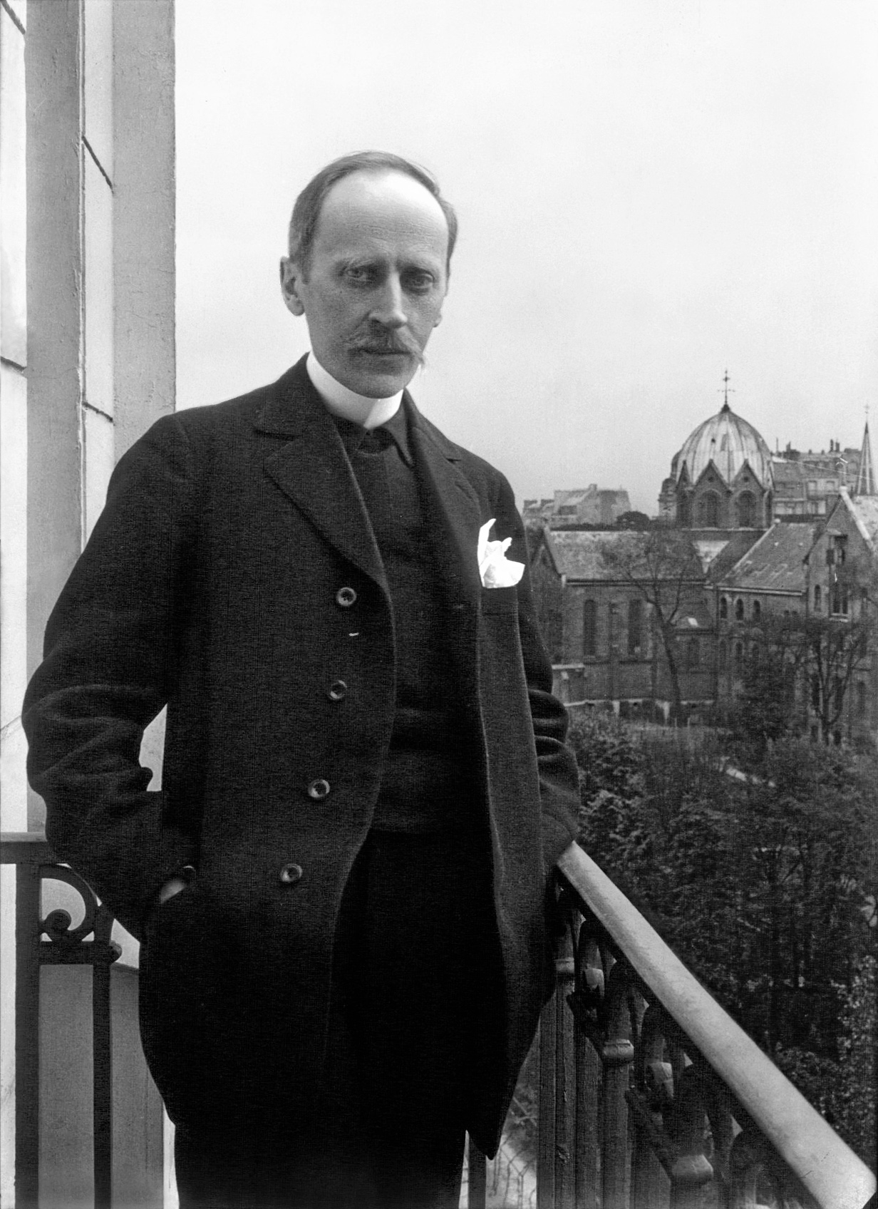 Romain Rolland on the balcony of his home (162, Boulevard de Montparnasse, Paris), 1914. View to the south-south-east. The cupola is the old monastary of the Sisters of Visitation (68 bis, Avenue Denfert-Rocherau).